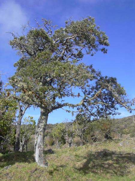 Photograph of Alphitonia ponderosa. Taken in Maui, Hawaii on November 11, 2003.